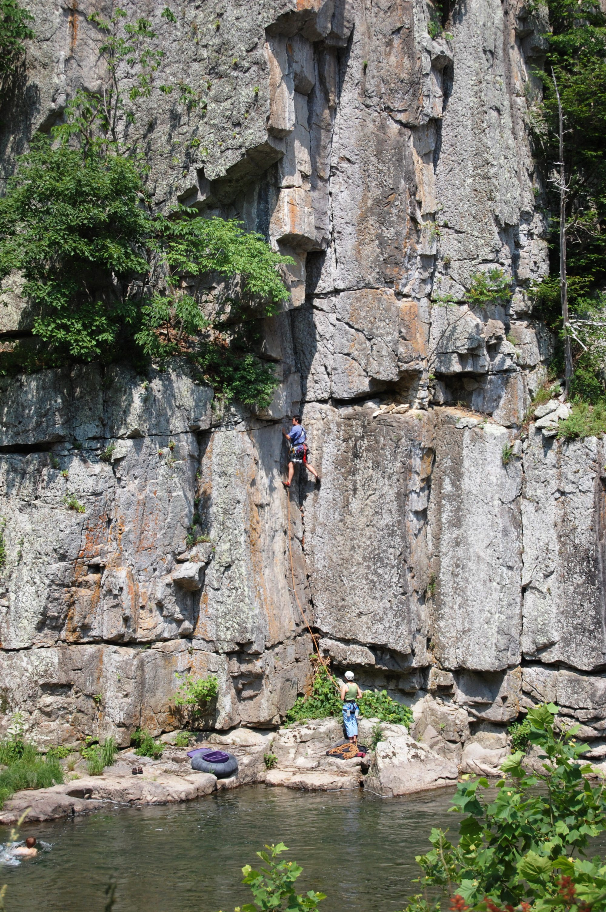 Climbing at Pork Palace cliff along Smokehole Road in Pendleton County, West Virginia. The climb is rarely done partially due to need to swim to get to it (see the "craft" used to ferry the gear at the base of the climb) and the need to clean large amount of poison ivy prior to climbing.